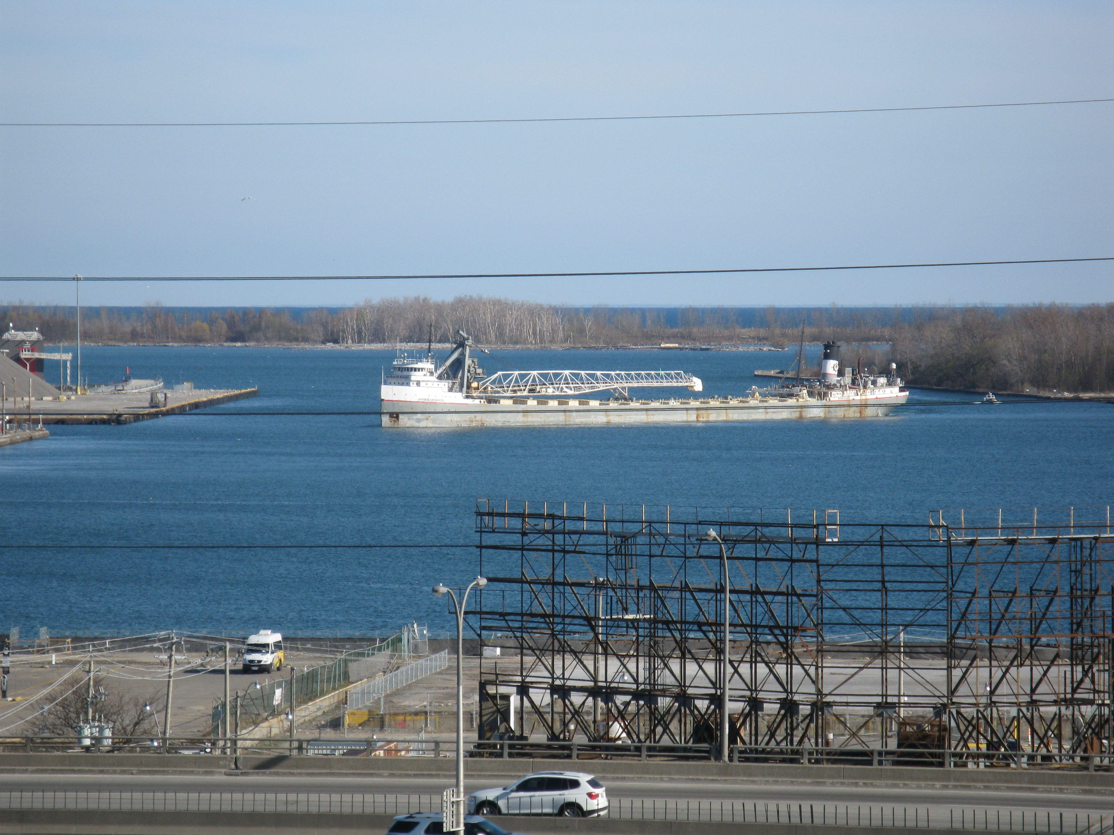 Lake freighter Mississagi in the Eastern Gap. IMO:5128467, MMSI:316004940, Call Sign:CFG8050